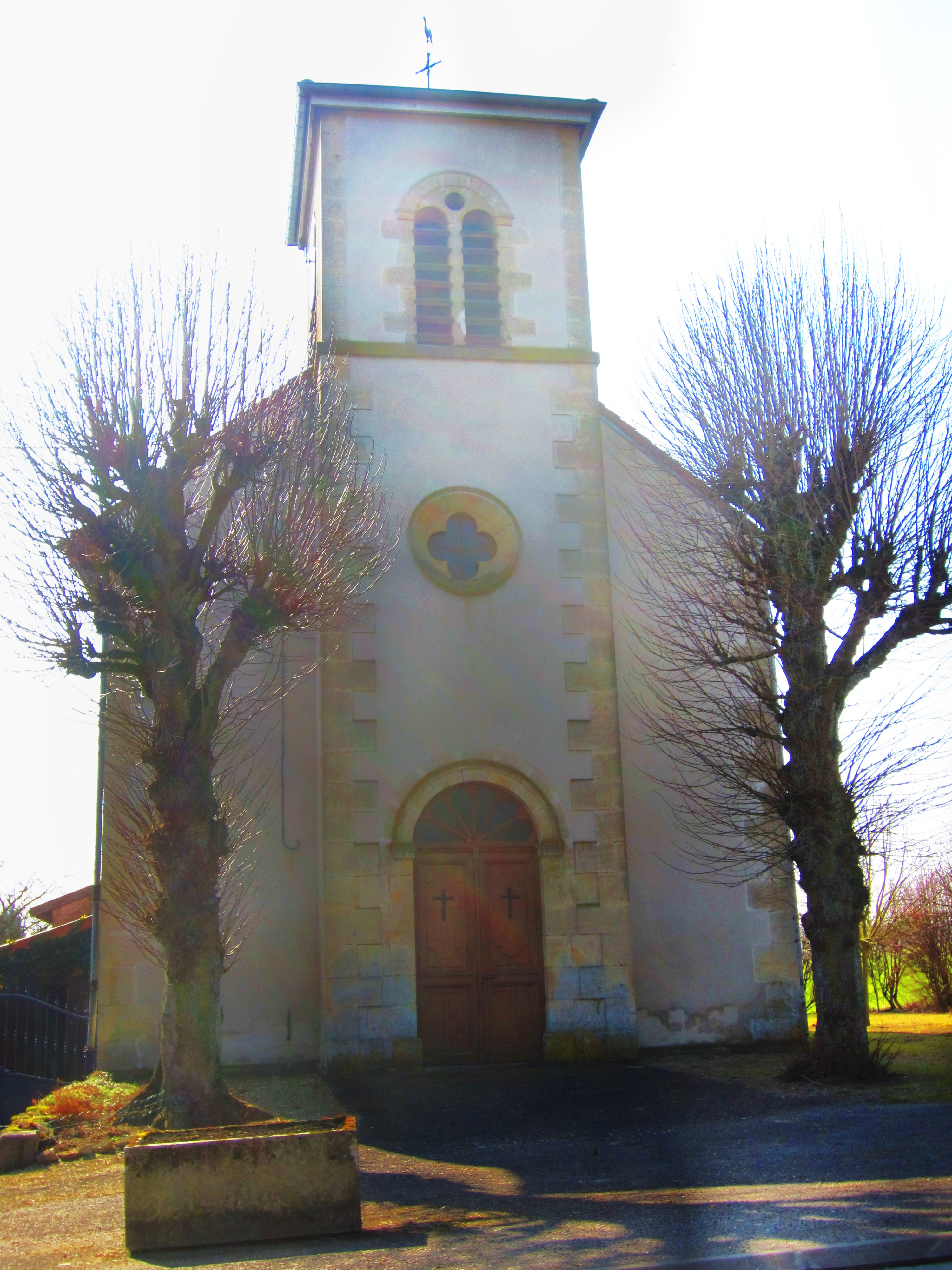 Vigneulles Hattonchatel st benoit church